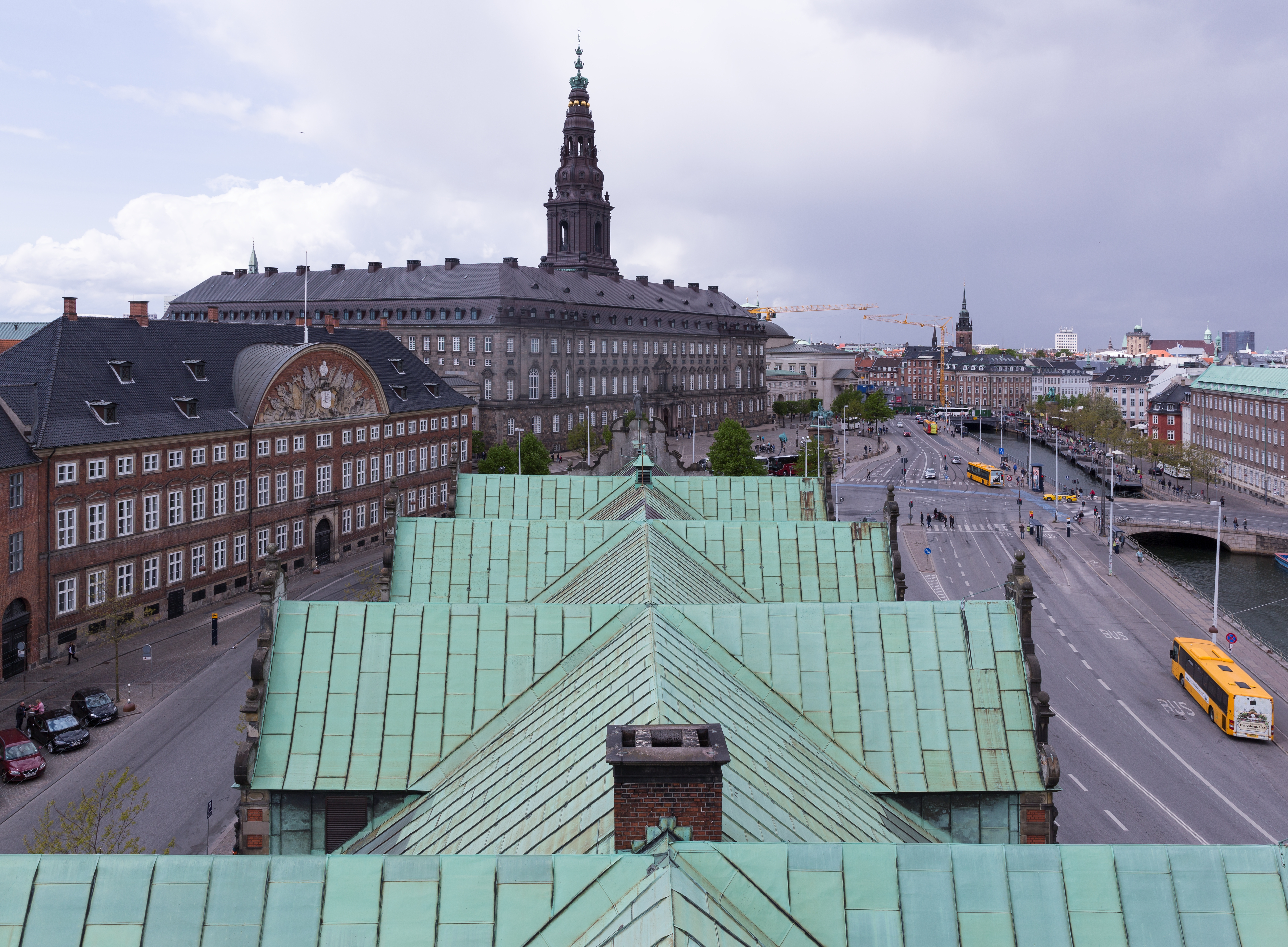 View from the top of Børsen